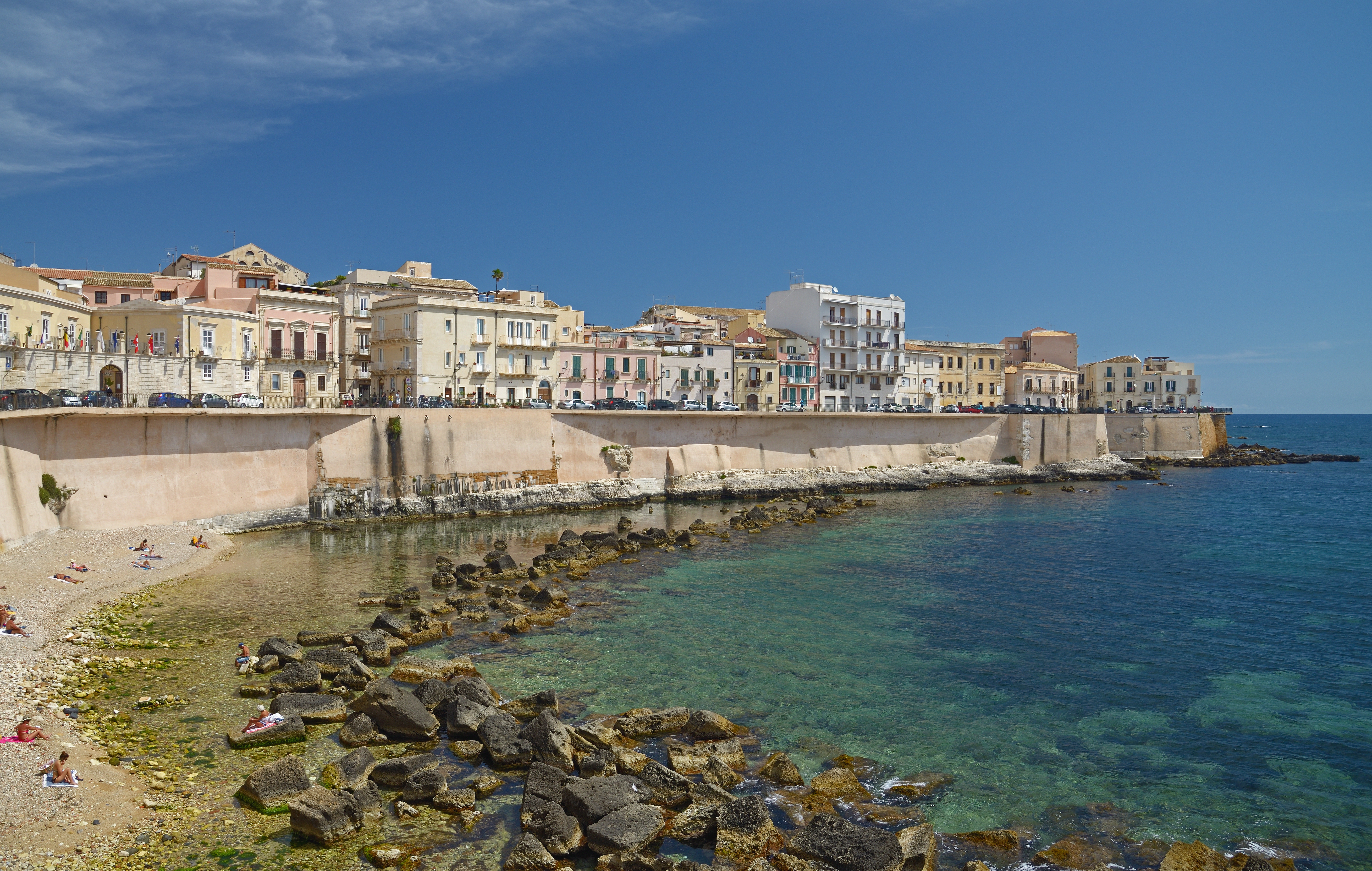 Lungomare di Levante Ortigia. Syracuse, Italy